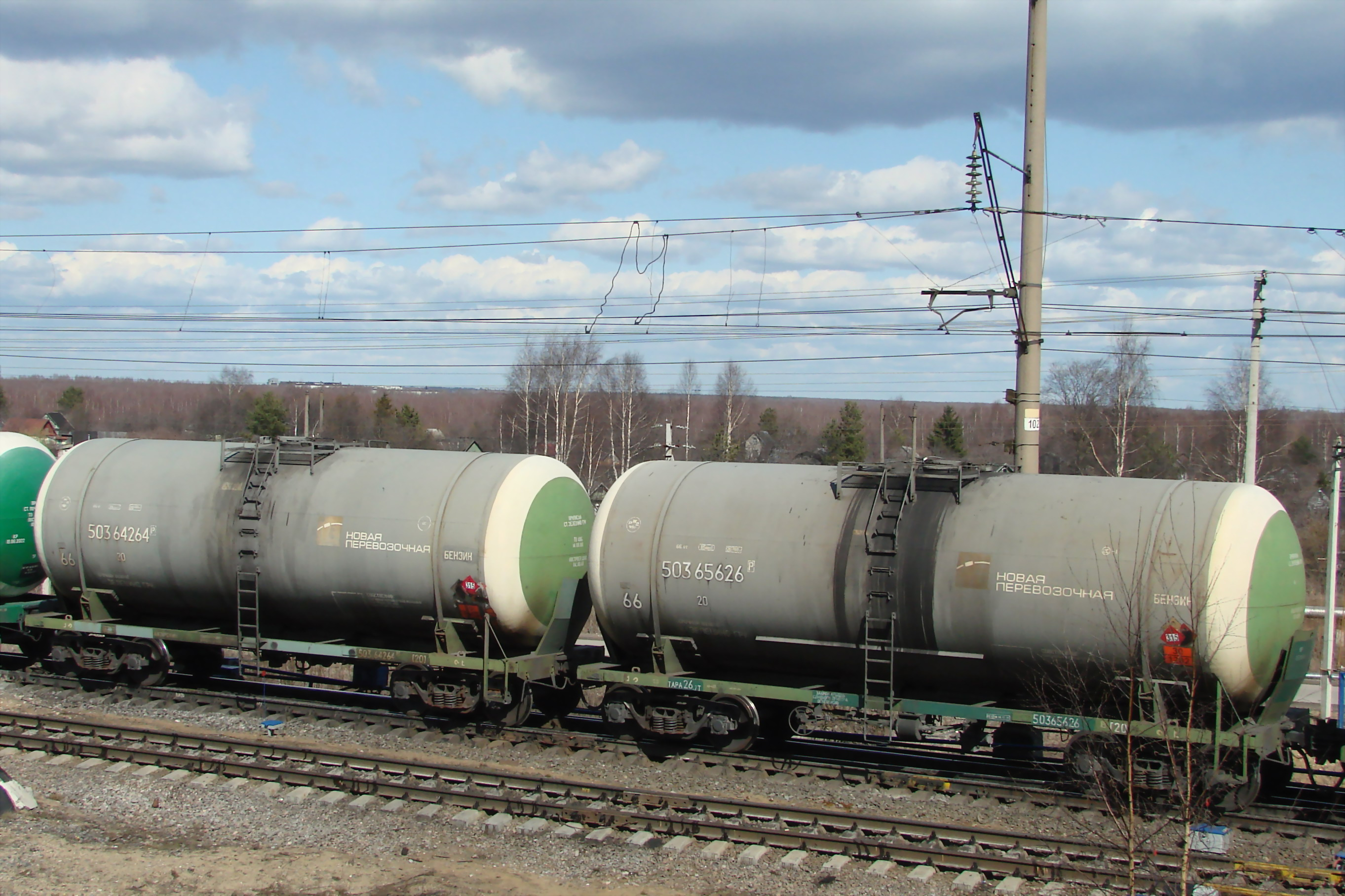 Russian Railways, Tank car